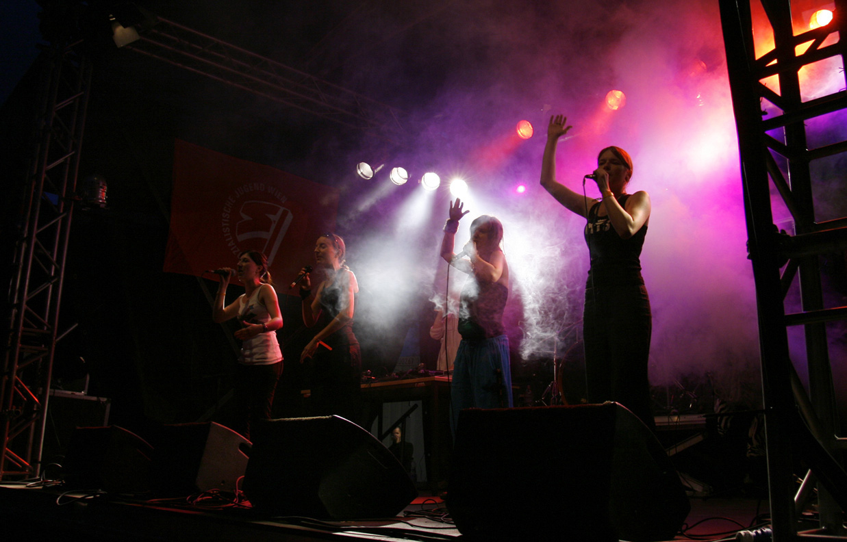 Austrian hip-hop-crew Multitaskingsistas at the Donauinselfest 2008, left to right: miss def, BagiRah, DJ Amin M, Mad-D, Nora MC